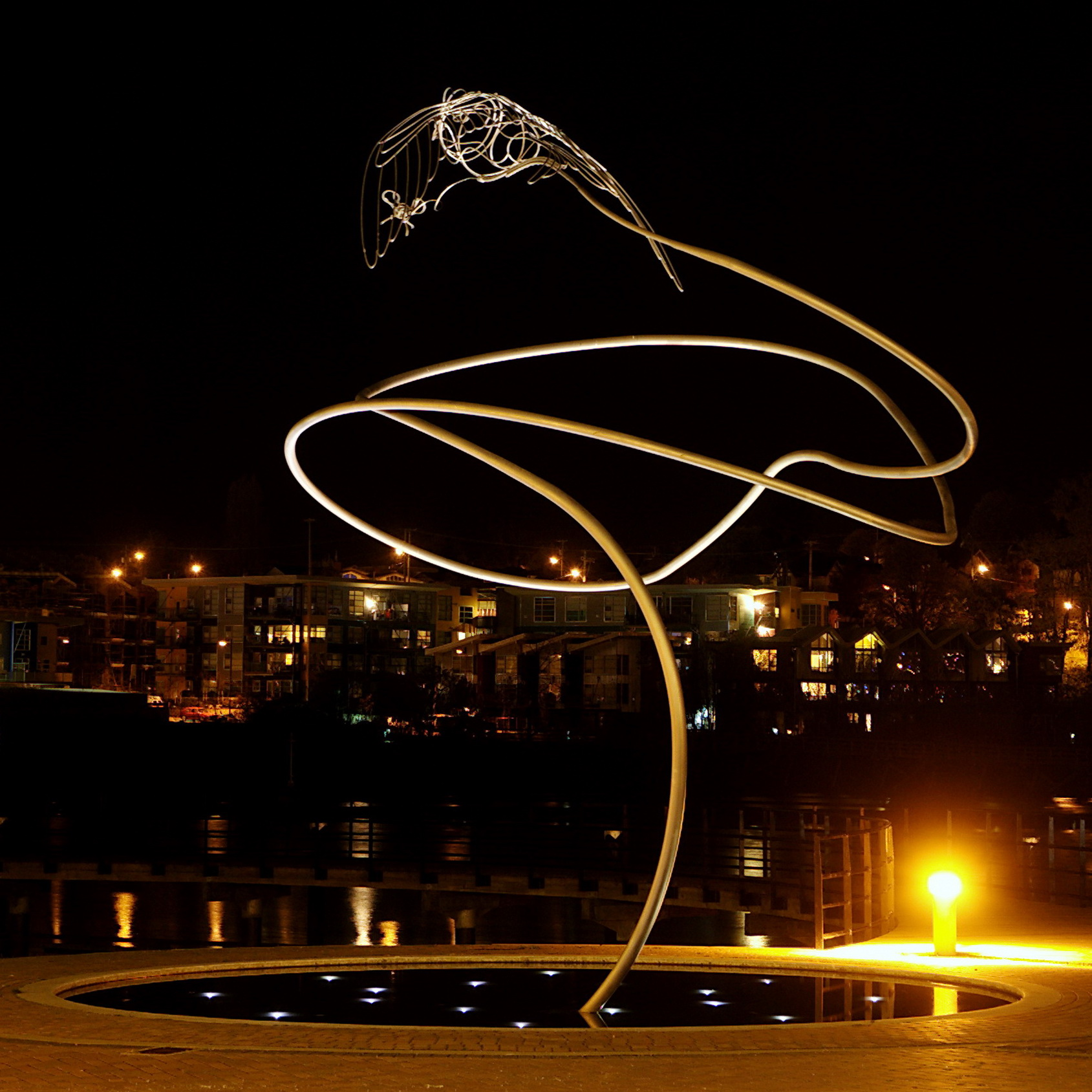 "Purple Martin" by Douglas Neufville Taylor. Unveiled January 12, 2004. 2940 Jutland Road. This shot is the original of this edited shot.Sculpture in Victoria/Canada